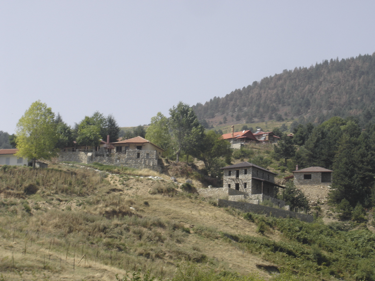 A view from Fteri, a settlement in Pieria, located in a remote area of the prefecture, in the border with Kozani.